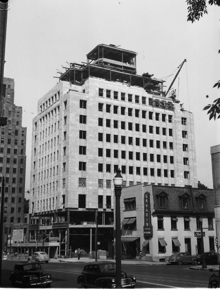 For documentary purposes the original description provided by BAnQ has been retained. Additional descriptive text may be added by Wikimedians with the wiki description = parameter, but please do not modify the other fields.